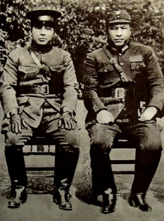 General Zhang Xueliang and Yang Hucheng at the time of the Xi'an Incident.